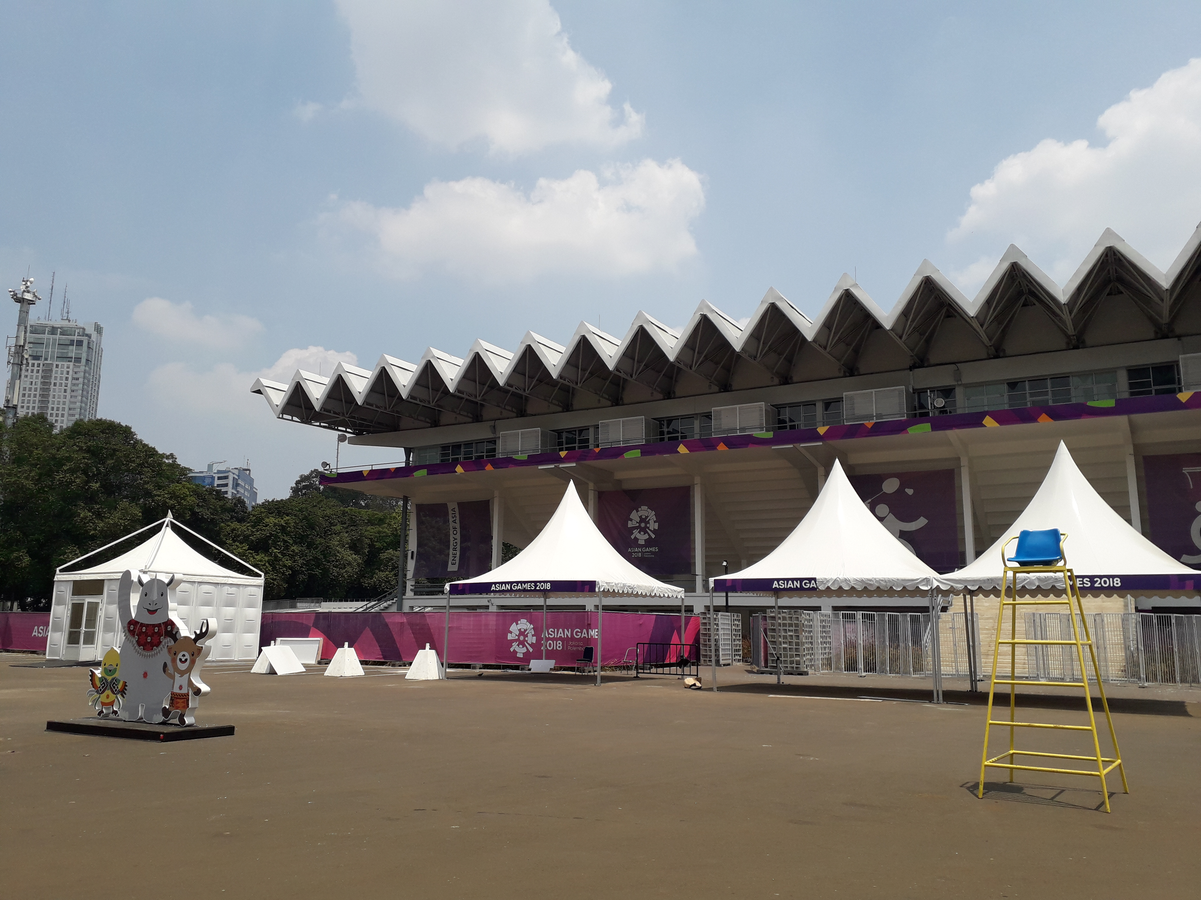 Istora Gelora Bung Karno (Istora Senayan), Asian Games 2018 venue for Badminton located in Gelora Bung Karno Sport Complex in Senayan, Central Jakarta.